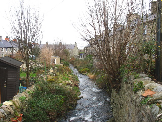 Afon Tal south of Eifl Street The gardens bordering the river on the left are those of houses in Lime Street